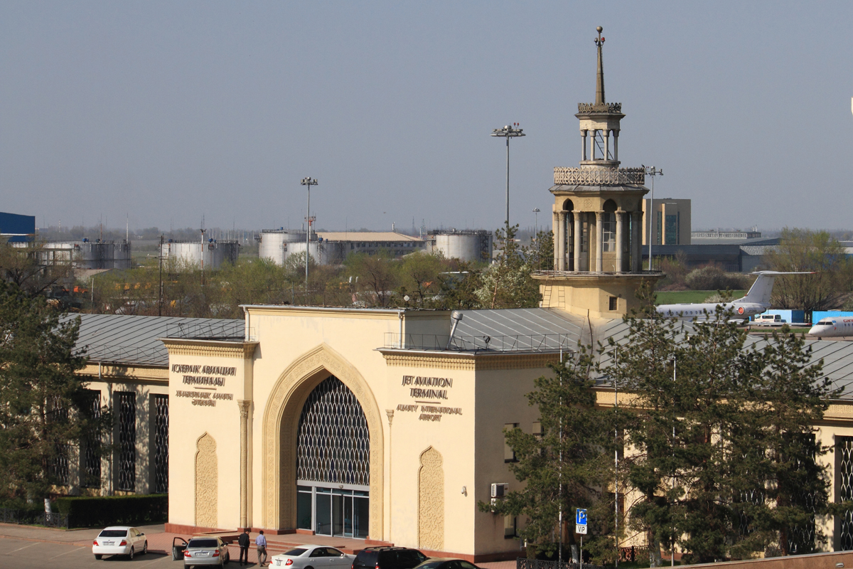 In Almaty International Airport. Business terminal